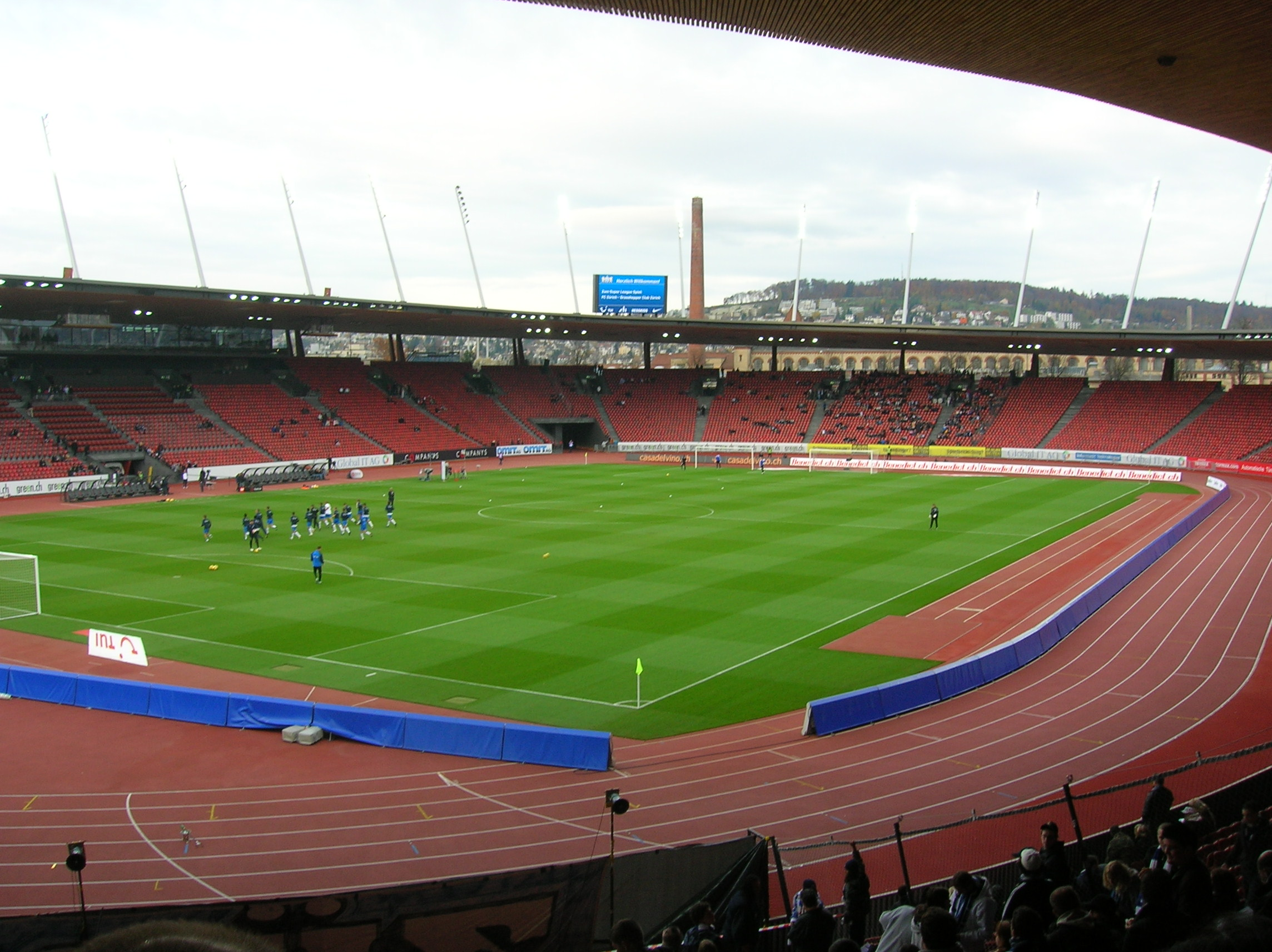 Letzigrund stadium (Zurich)